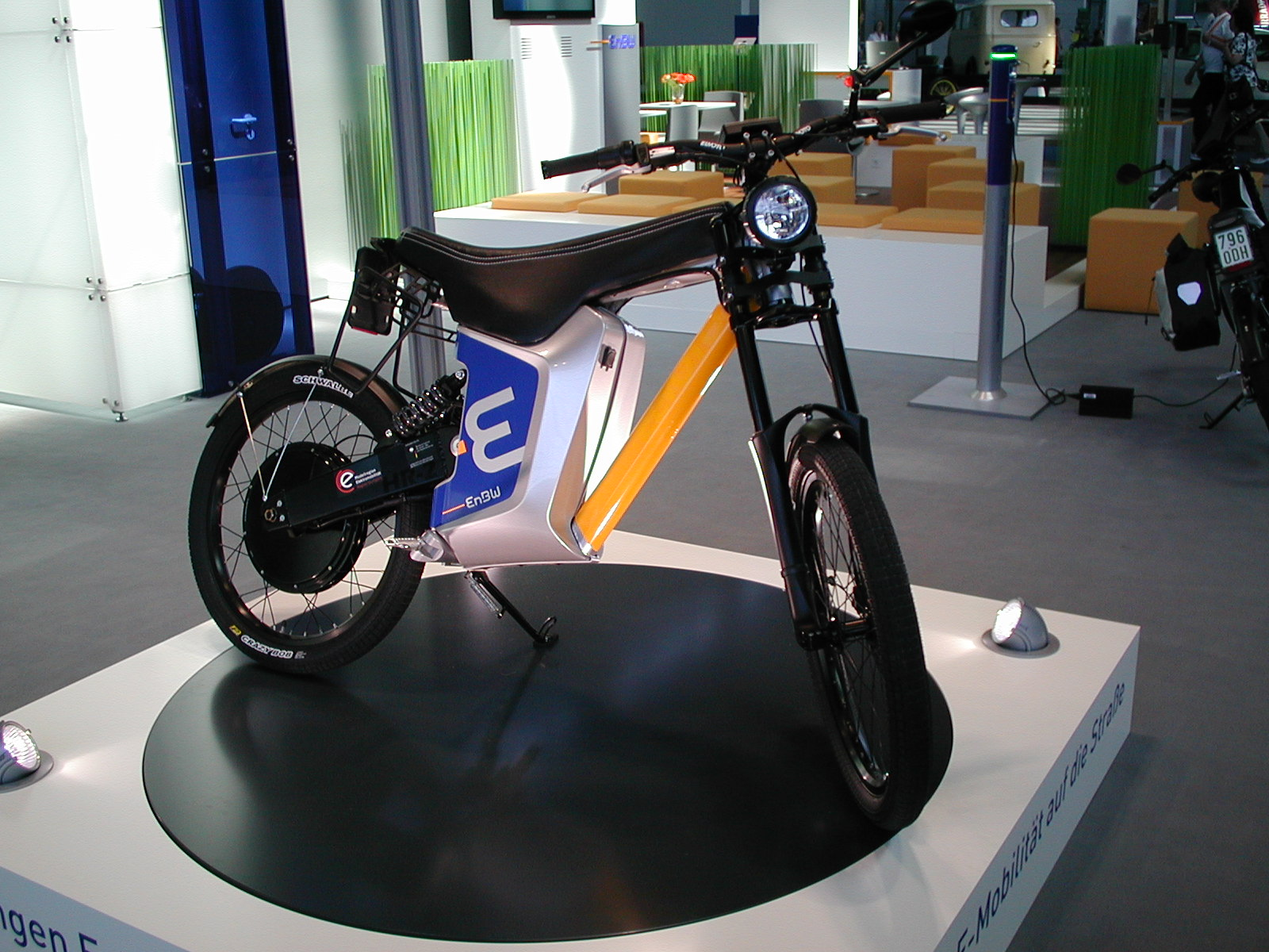 ELMOTO HR-2 in the design of the test fleet of the EnBW scooter test. Taken in Friedrichshafen at the exhibition TEA - The Electric Avenue